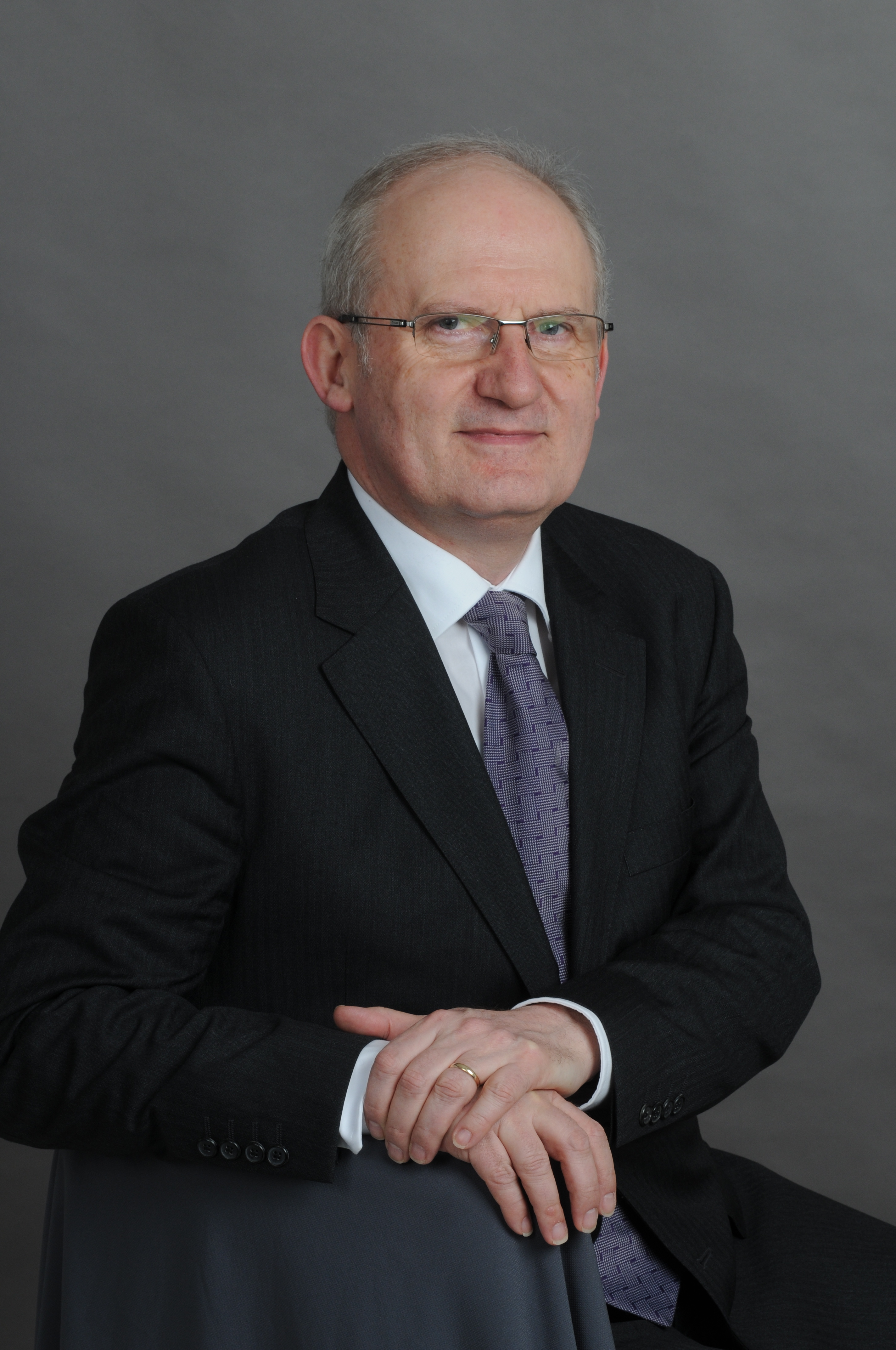 Werner G Jearond Other information CC-BY-SA is granted if the licensor and photographer are cited by all users.